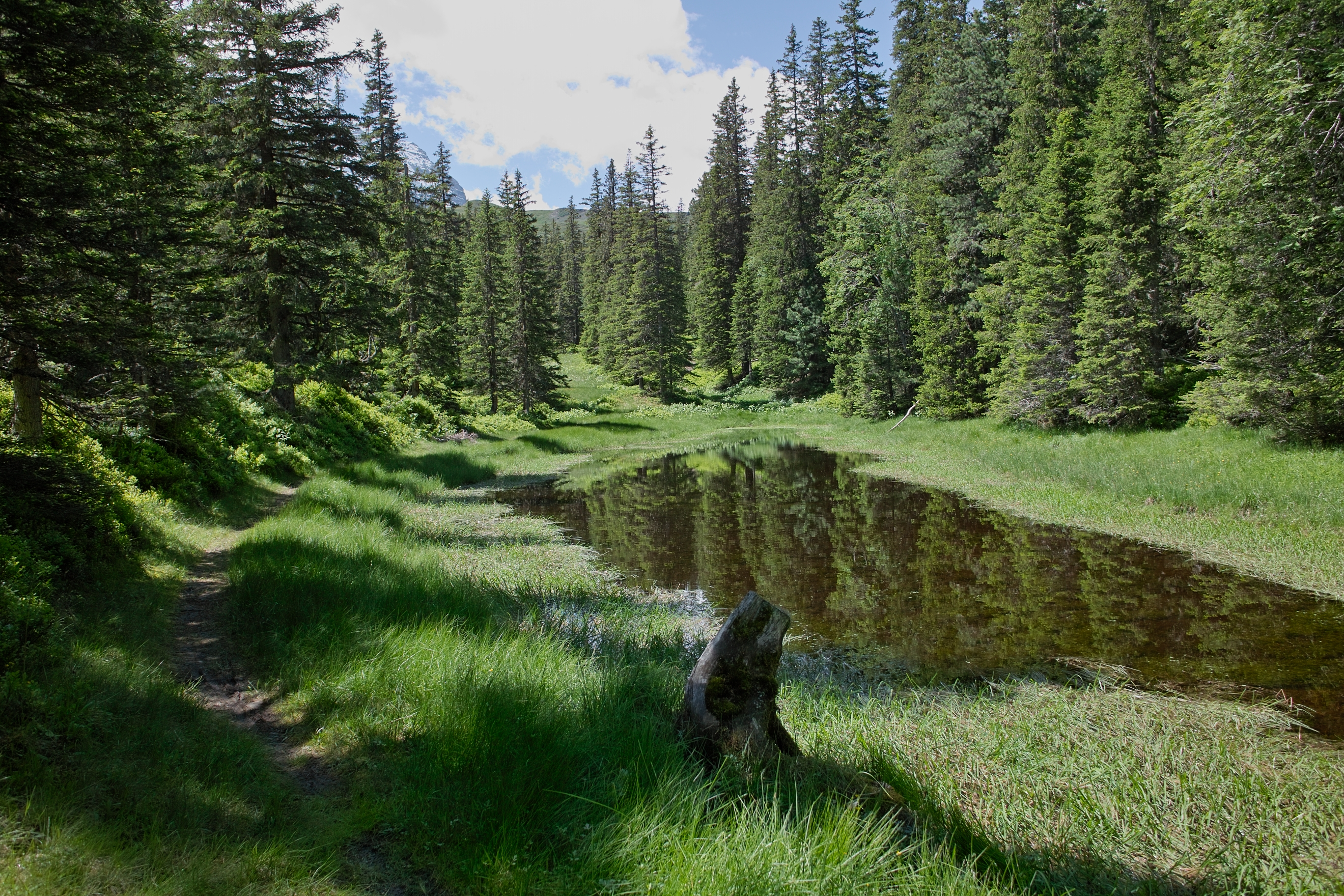 Pool near raised bog nature reserve "Im Fysteren Graben" near Grindelwald, seen from the hiking trail. View towards south-west.